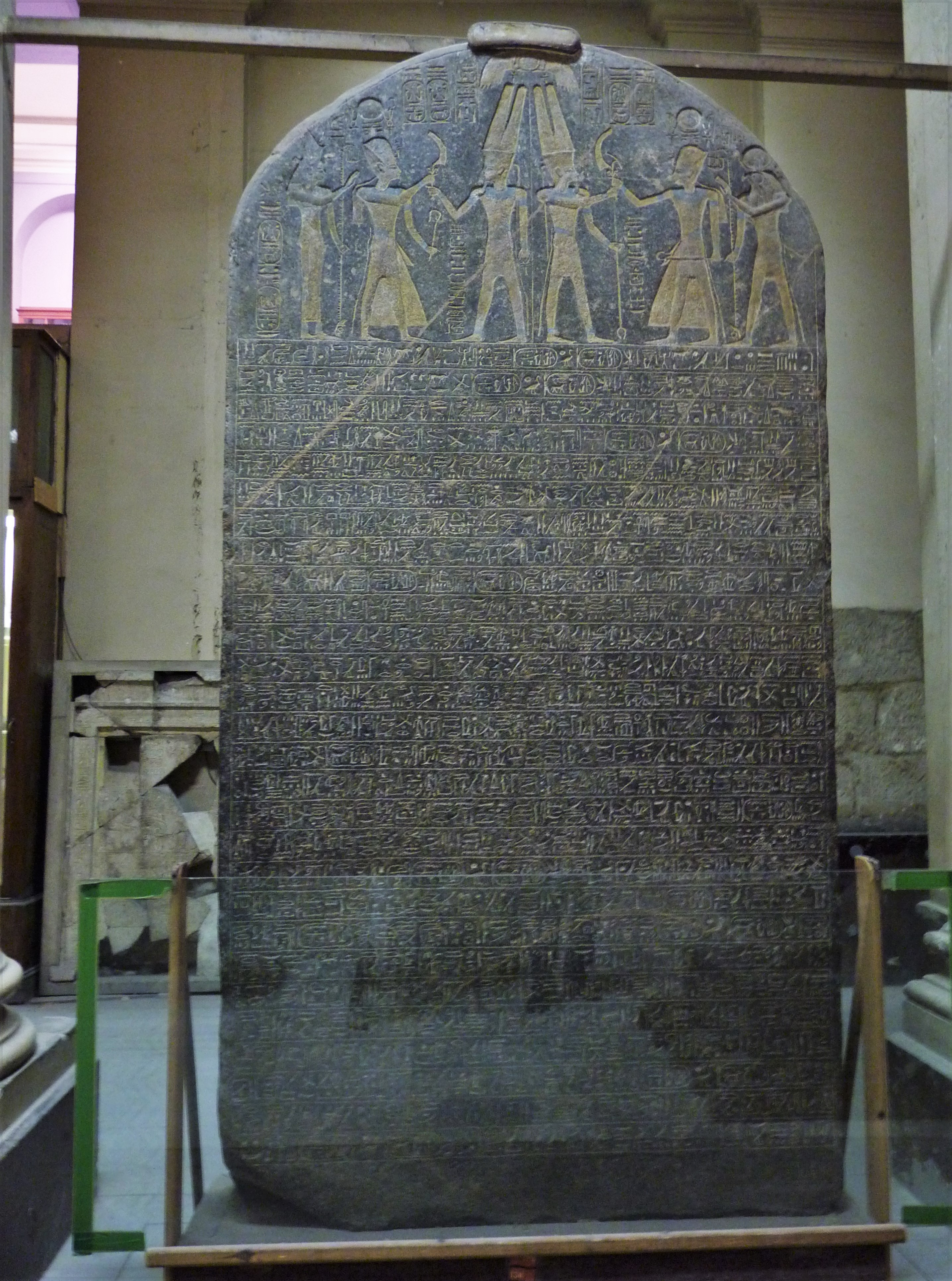 Cairo Egyptian Museum, 2016. First mention of Israel. Label at Egyptian Museum reads: The Israel Stela* Thebes-- Reign of Merenptah (c. 1213 - 1203 BCE) Set up in Merenptah's mortuary temple at Thebes, this granite stele bears an inscription dating to the 5th year of that king's reign. It tells of Egypt's victory over their Libyan enemies, who had attacked the Delta with the help of a coalition of displaced peoples from around the Mediterranean known as the Sea Peoples. At the end of the text is a list of some of Egypt's enemies, which includes the name Israel. This is the first occurrence of this name known from the ancient world.